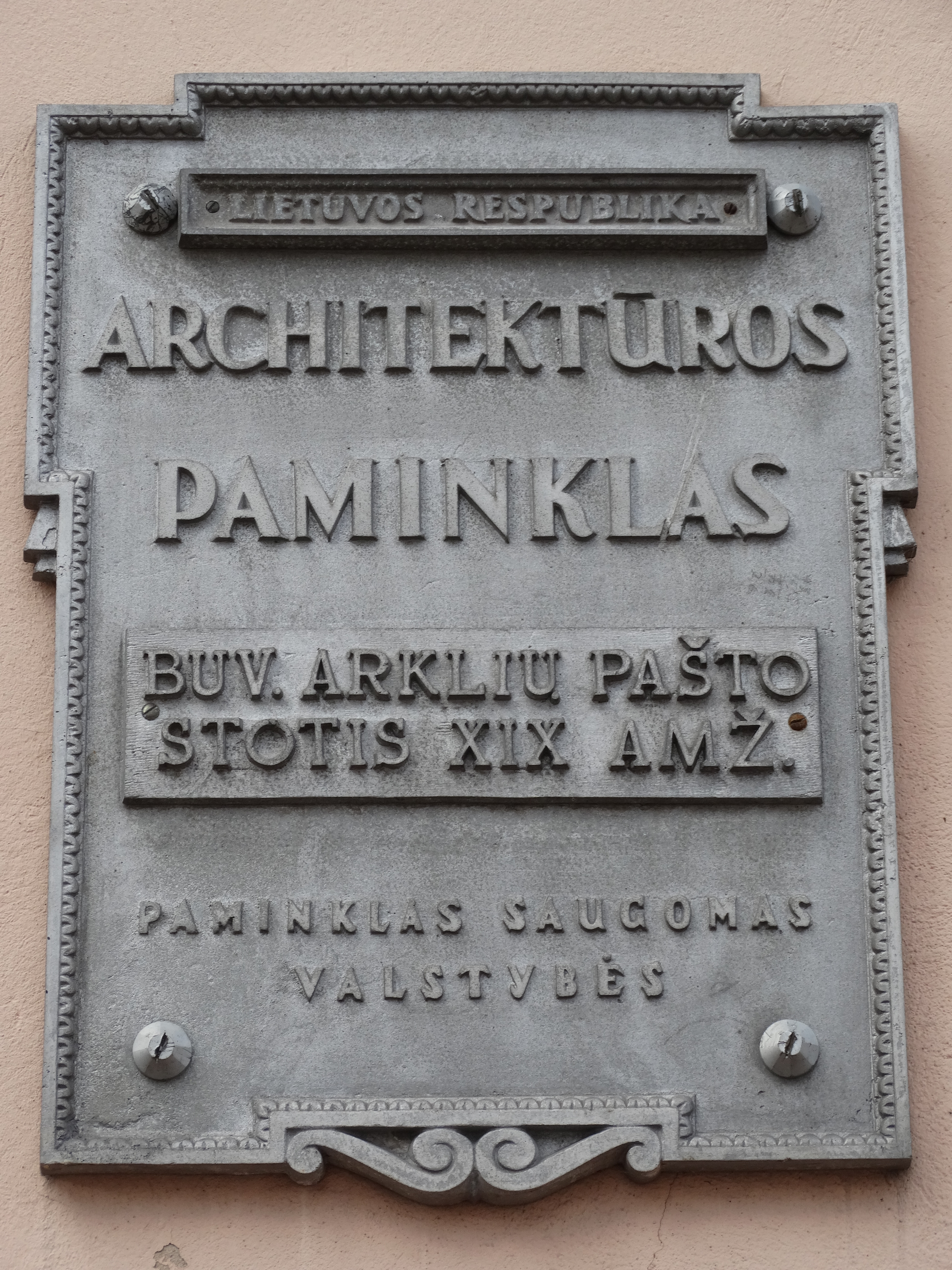 Memorial plaque to horse-post station, Rotušės a., Kaunas, Lithuania